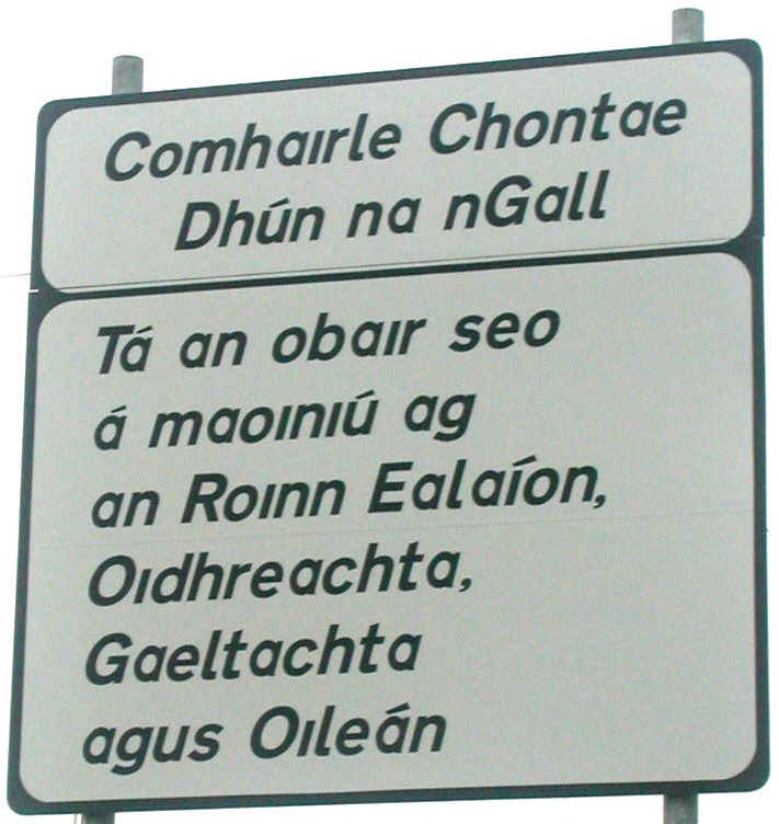 Gaeltacht road sign in County Donegal. Text on the sign is in Irish and translates as follows: "Donegal County Council. This work has been financed by the Department of Arts, Heritage, Gaeltacht and the Islands"